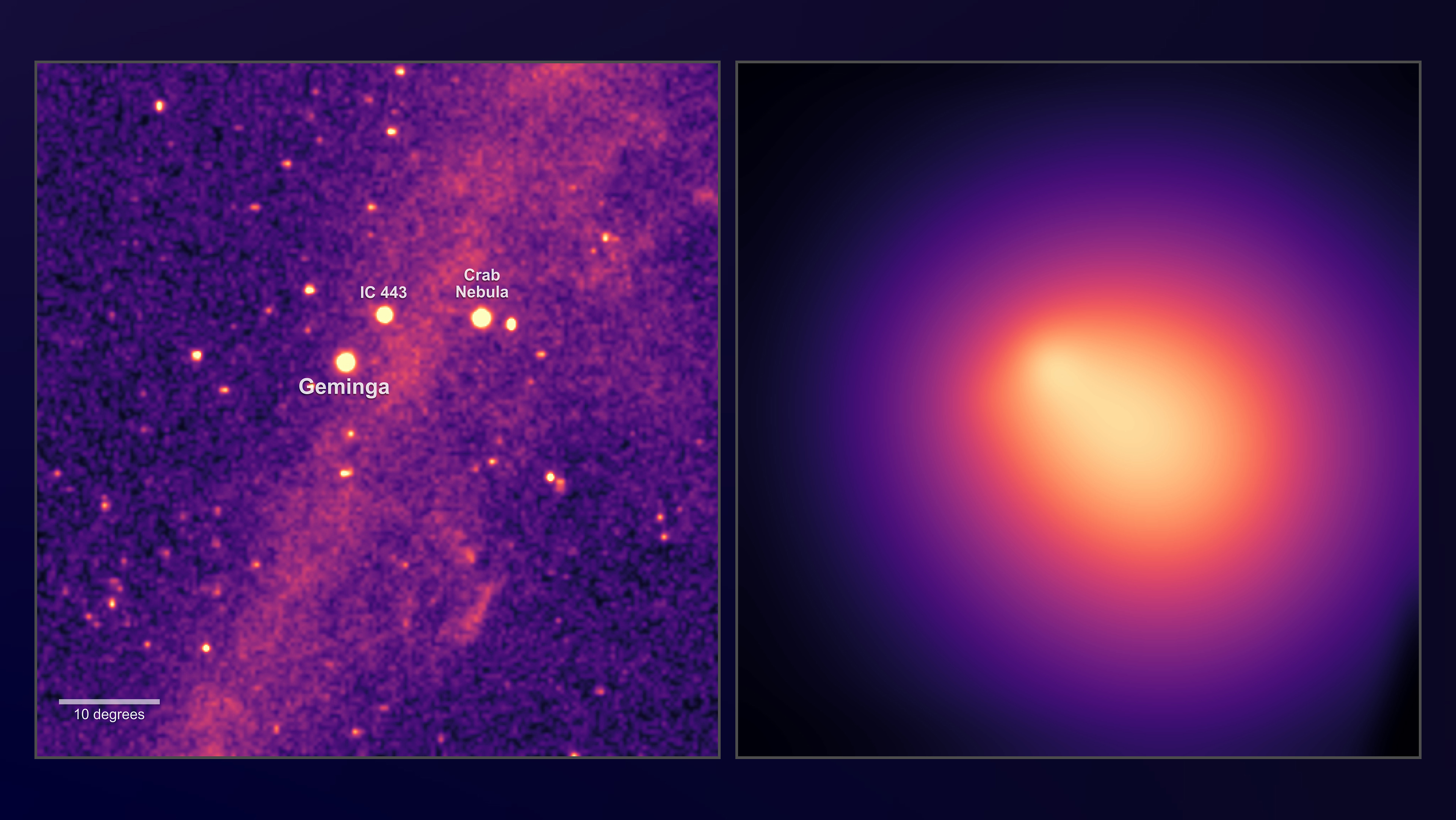 These images show a region of the sky centered on the pulsar Geminga. Left: The total number of gamma rays detected by Fermi’s Large Area Telescope at energies from 8 to 1,000 billion electron volts (GeV) — billions of times the energy of visible light — over the past decade. Brighter colors correspond to greater numbers of gamma rays. Right: By removing all bright sources, astronomers discovered the pulsar’s faint, extended gamma-ray halo. Credit: NASA/DOE/Fermi LAT Collaboration